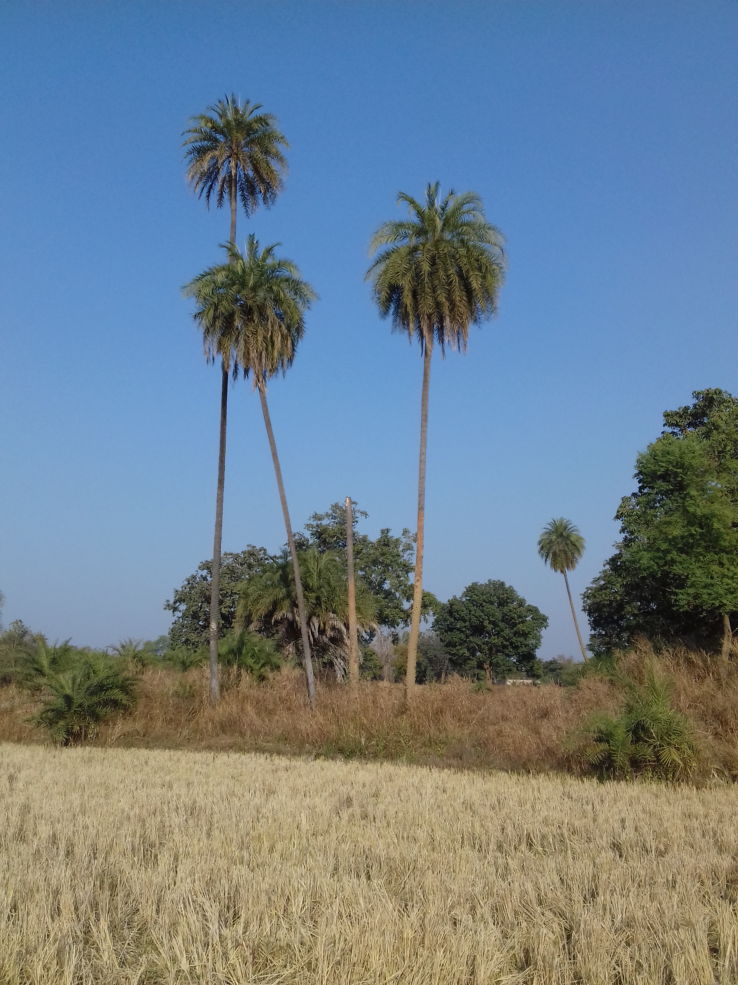 The beautiful Khajur (ଖଜୁର) Formation